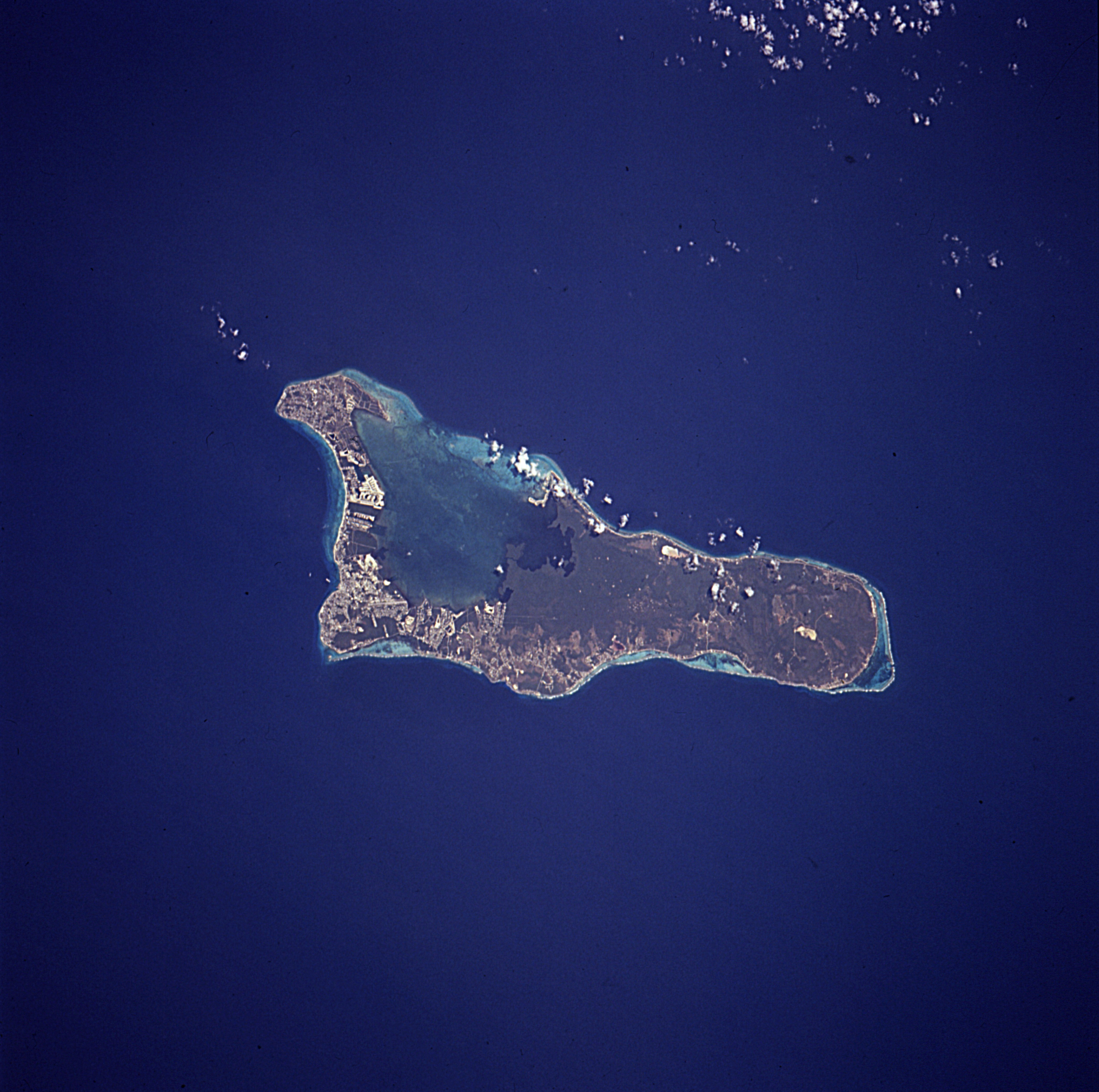 The island of Grand Cayman, a British dependency that covers 76 square miles (197 square kilometers) in the northwest Caribbean Sea, is visible in this near-vertical photograph. Geologically similar to The Bahamas, Grand Cayman is a low-lying, limestone island located on top of a submarine ridge. The city of George Town, the capital and chief port of the Cayman Islands, can be seen at the southwest end of the island. Grand Cayman’s 7-mile beach can be seen on the western side of the island. The image was taken from an altitude of 115 nautical miles (213km); North is up in this image.